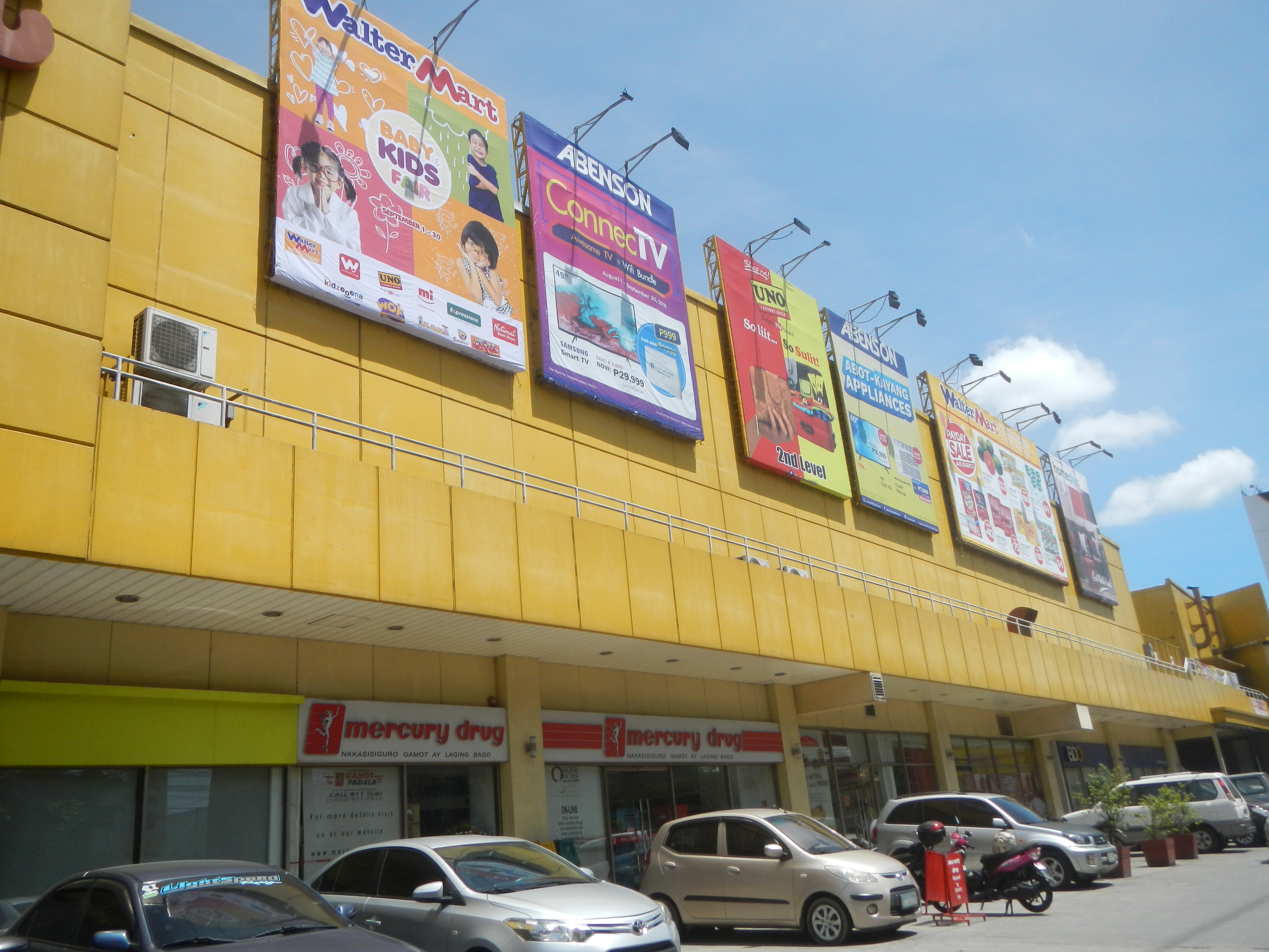 East Service Road (Bicutan, Taguig City-Parañaque City) East Service Road 14°28'8"N 121°2'43"E Waltermart - Bicutan (East Service Road, San Martin De Porres, Parañaque City) Perpetual Village (Tanyag, Taguig City), Legislative district of Taguig City Legislative district of Pateros-Taguig City Barangay Tanyag 14°28'43"N 121°2'54"E South Daang Hari 14°28'10"N 121°2'57"E Bagumbayan 14°28'33"N 121°3'18"E Bagumbayan, Taguig, Upper Bicutan Upper Bicutan 14°29'52"N 121°2'59"E Barangay Western Bicutan, Taguig City Western Bicutan (Taguig) 14°31'3"N 121°2'22"E Taguig City bounded by List of barangays of Metro Manila, Legislative districts of Parañaque 1st District, Districts and barangays, San Martin de Porres 14°28'54"N 121°2'33"E Parañaque City (Note: Judge Florentino Floro, the owner, to repeat, Donor Florentino Floro of all these photos hereby donate gratuitously, freely and unconditionally all these photos to and for Wikimedia Commons, exclusively, for public use of the public domain, and again without any condition whatsoever).